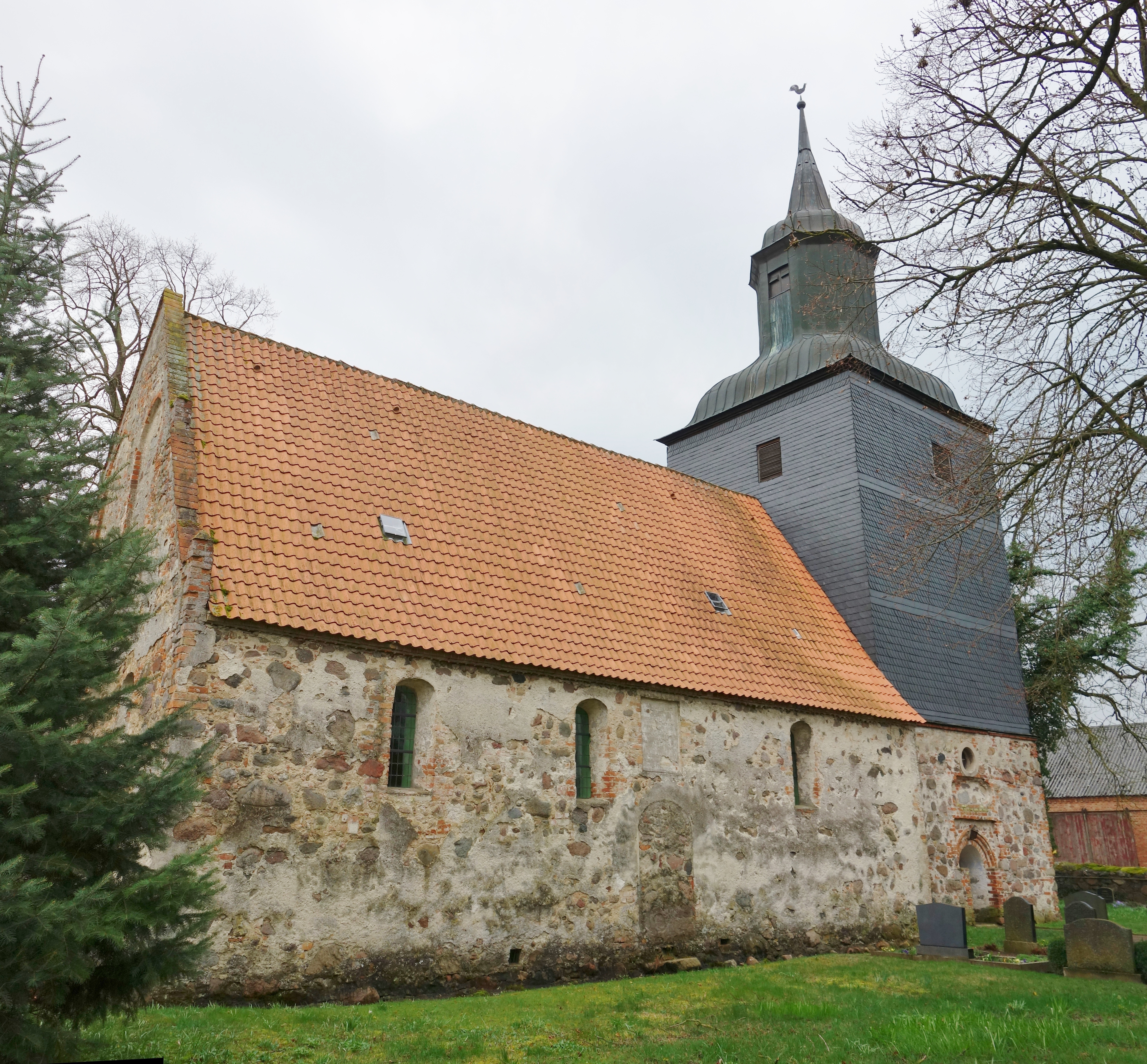 North-eastern view of church in Trebenow, Uckerland municipality, Uckermark district, Brandenburg state, Germany